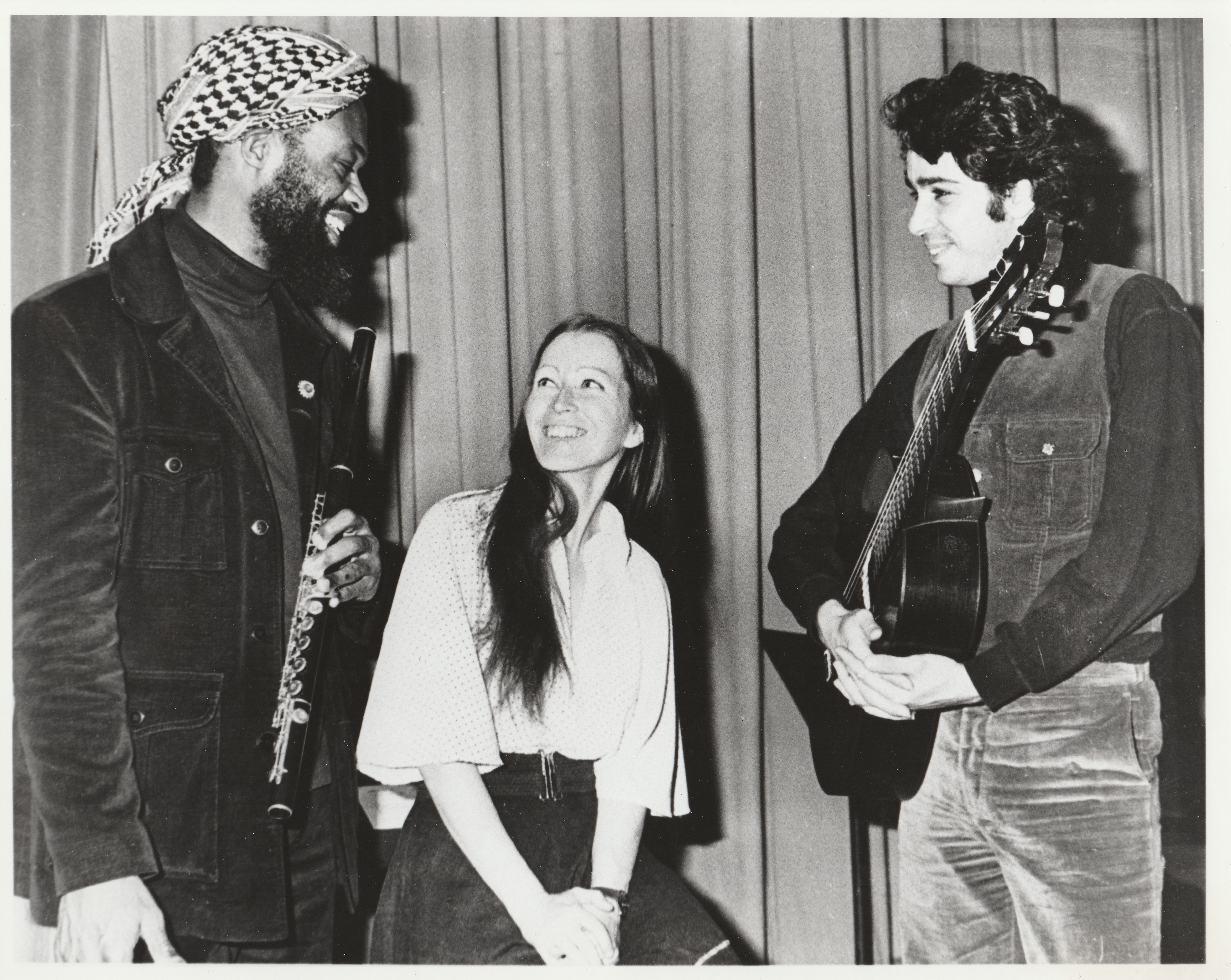 Sayyd Abdul Al-Khabyyr, Pauline Vaillancourt and Michael Laucke Note for copyright purposes, this photo was taken by either an employee of, or by a photographer hired by Michael Laucke. It is a work for hire, owned and paid for by Michael Laucke. It is hereby licensed under Public Domain Dedication (CC0); ALL RIGHTS WAIVED!